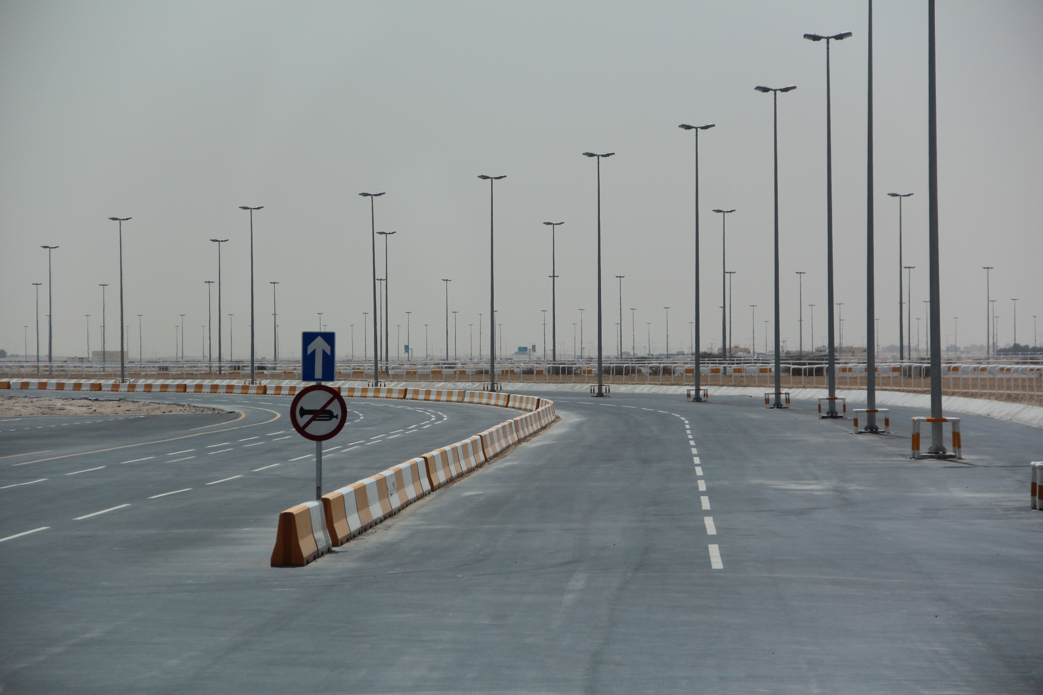 The tracks at Al-Shahaniya Camel Racetrack in central Qatar.